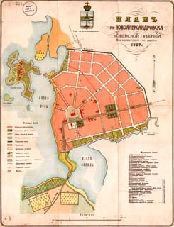 Jeziorosy, town plan, 1907